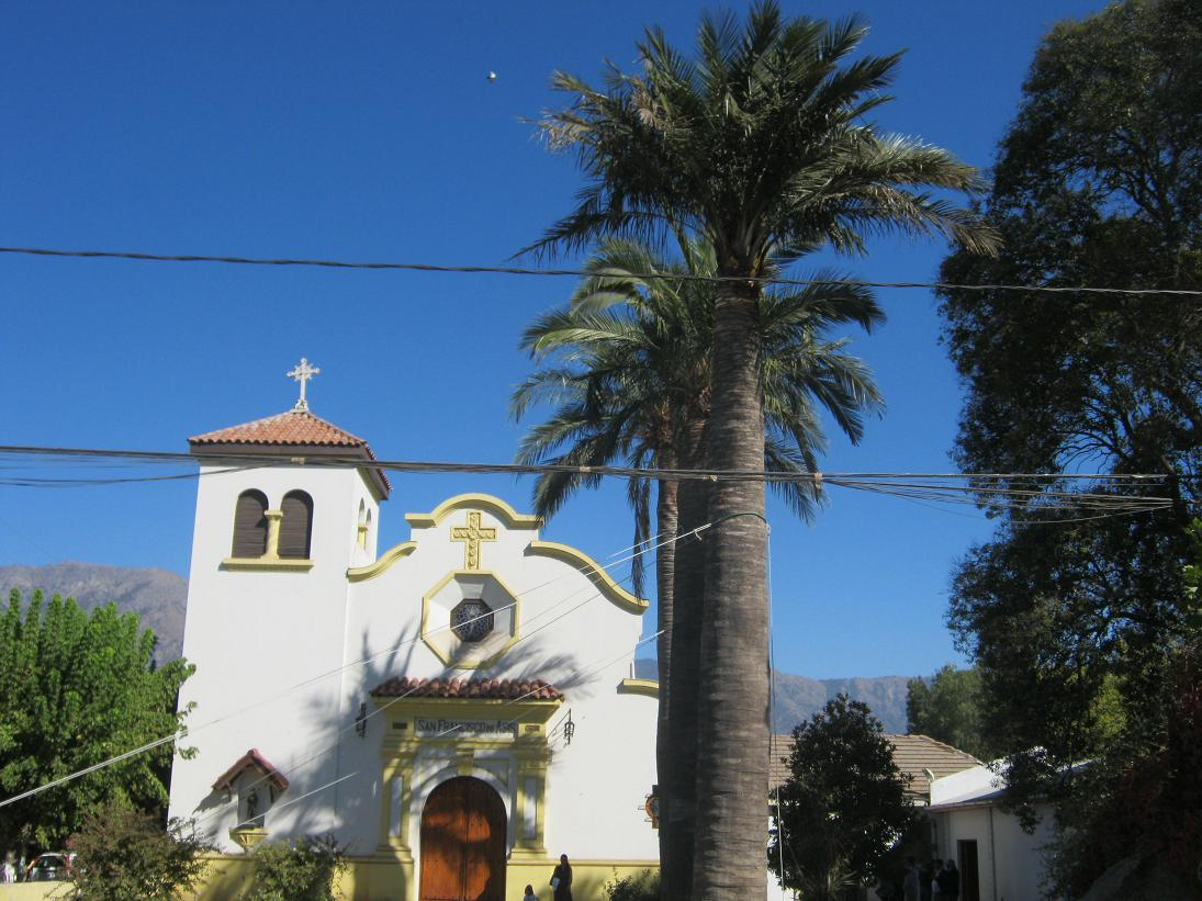 Chilean wine palm San Francisco de Asis Church San Francisco de Mostazal